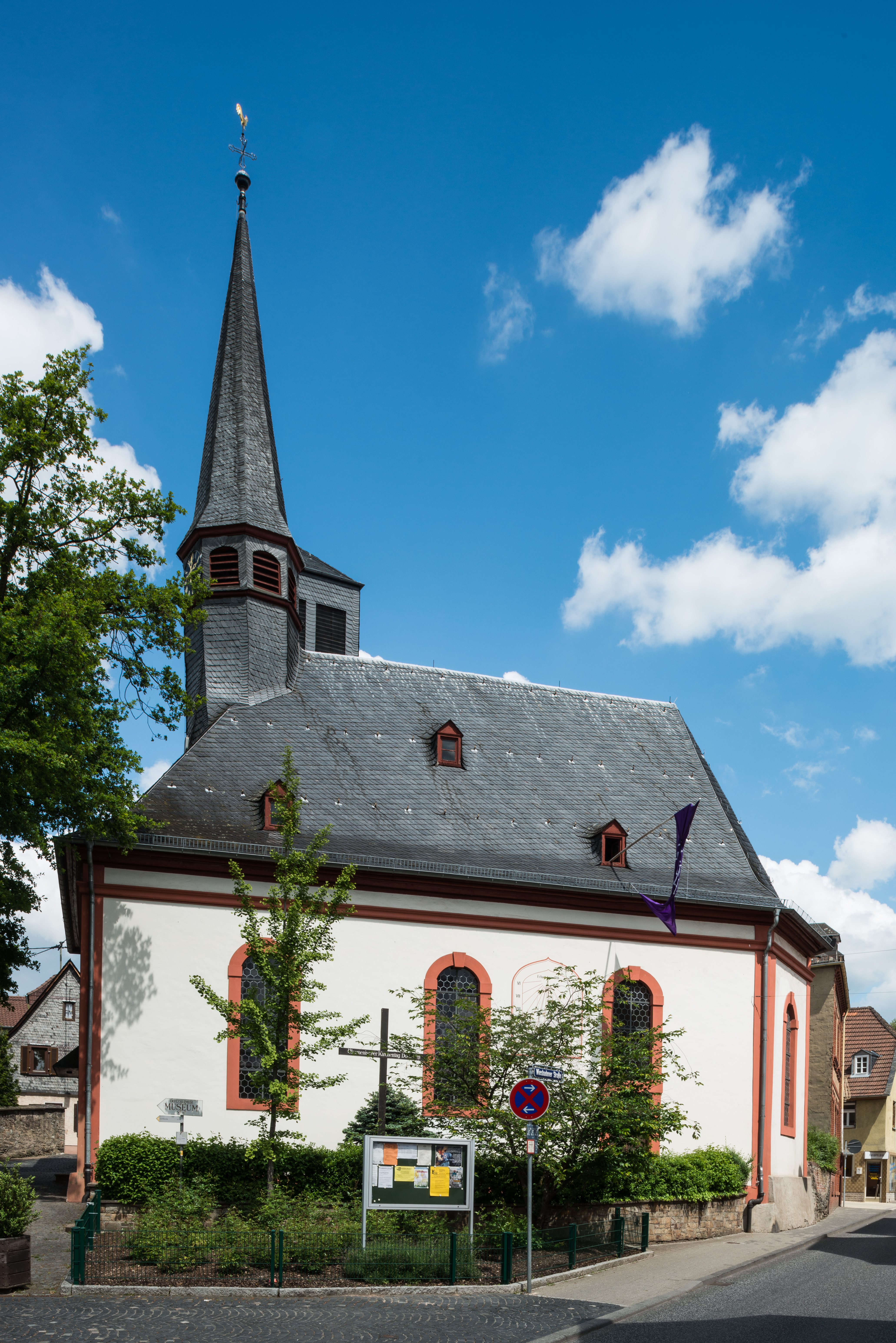 Protestantic Church Wiesbaden Dotzheim